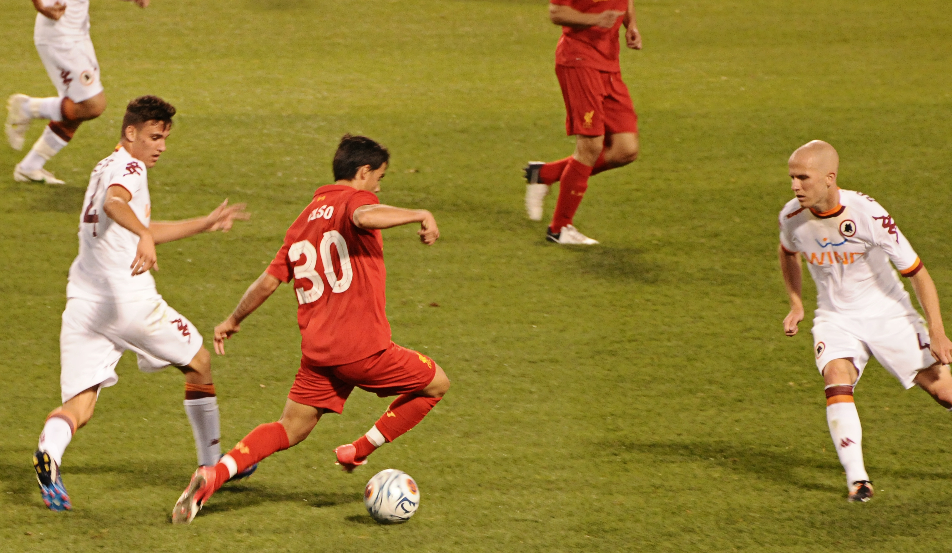 Suso takes on Bradley in a final assault at the Roma goal.